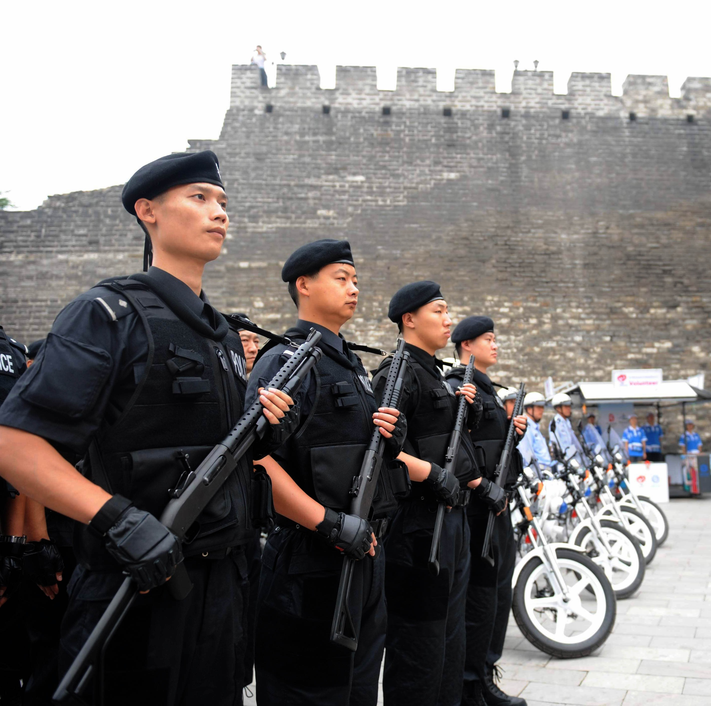 Beijing 2008 Olympics Readiness Gathering - Beijing Police ChongWen Station Chongwen Station Police Gathering is held near the "Relics of the Walls from Yuan Dynasty". They are from SWAT, Traffic Police (including motorcop), Patrols and Security Guard.